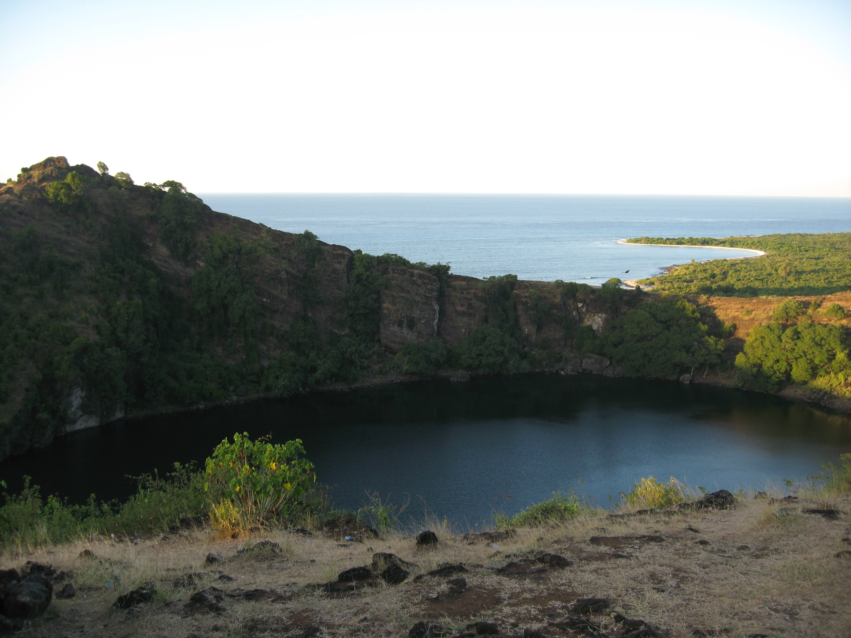 Old volcanic crater. Grande Comore